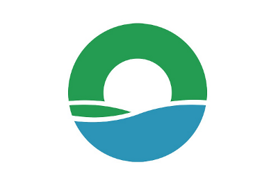 Flag of Hokota Ibaraki